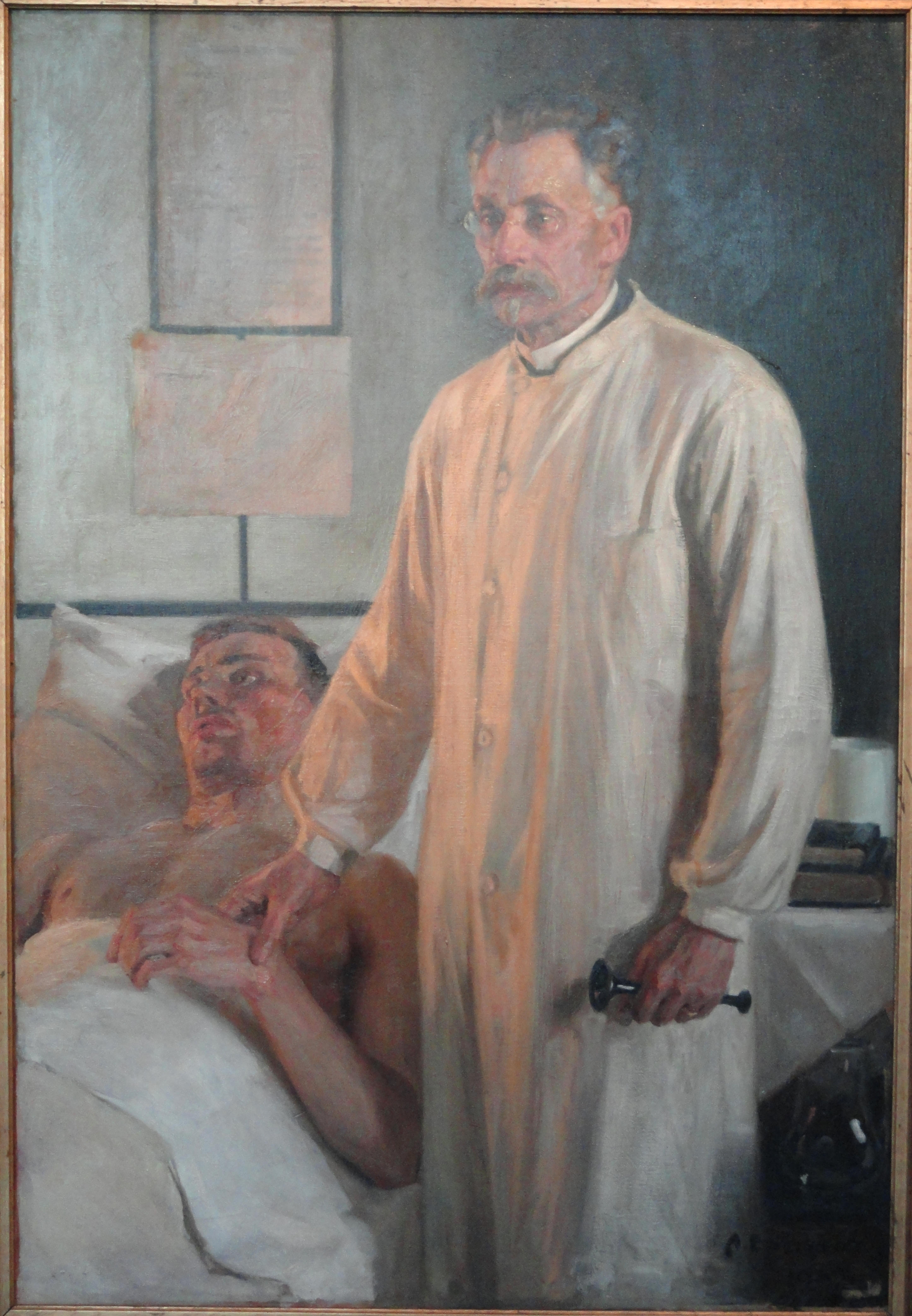 Exhibit in the Arppeanum, Helsinki, Finland. This artwork is in the public domain because the artist died more than 70 years ago.